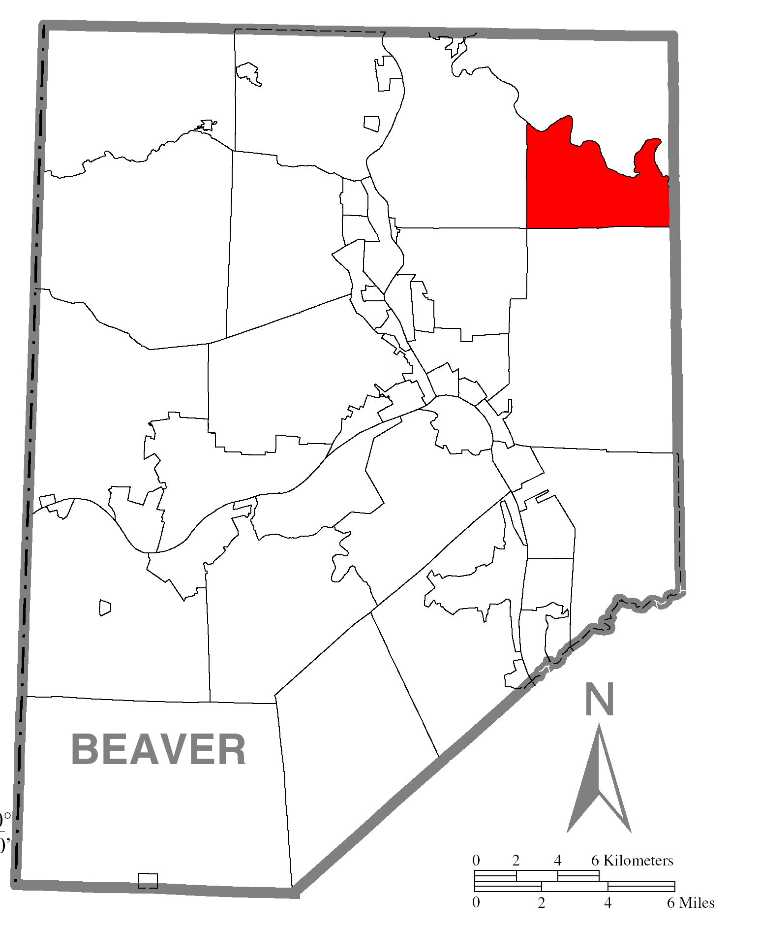 A map of Beaver County showing Marion Township, Pennsylvania (alternate) highlighted on the map.